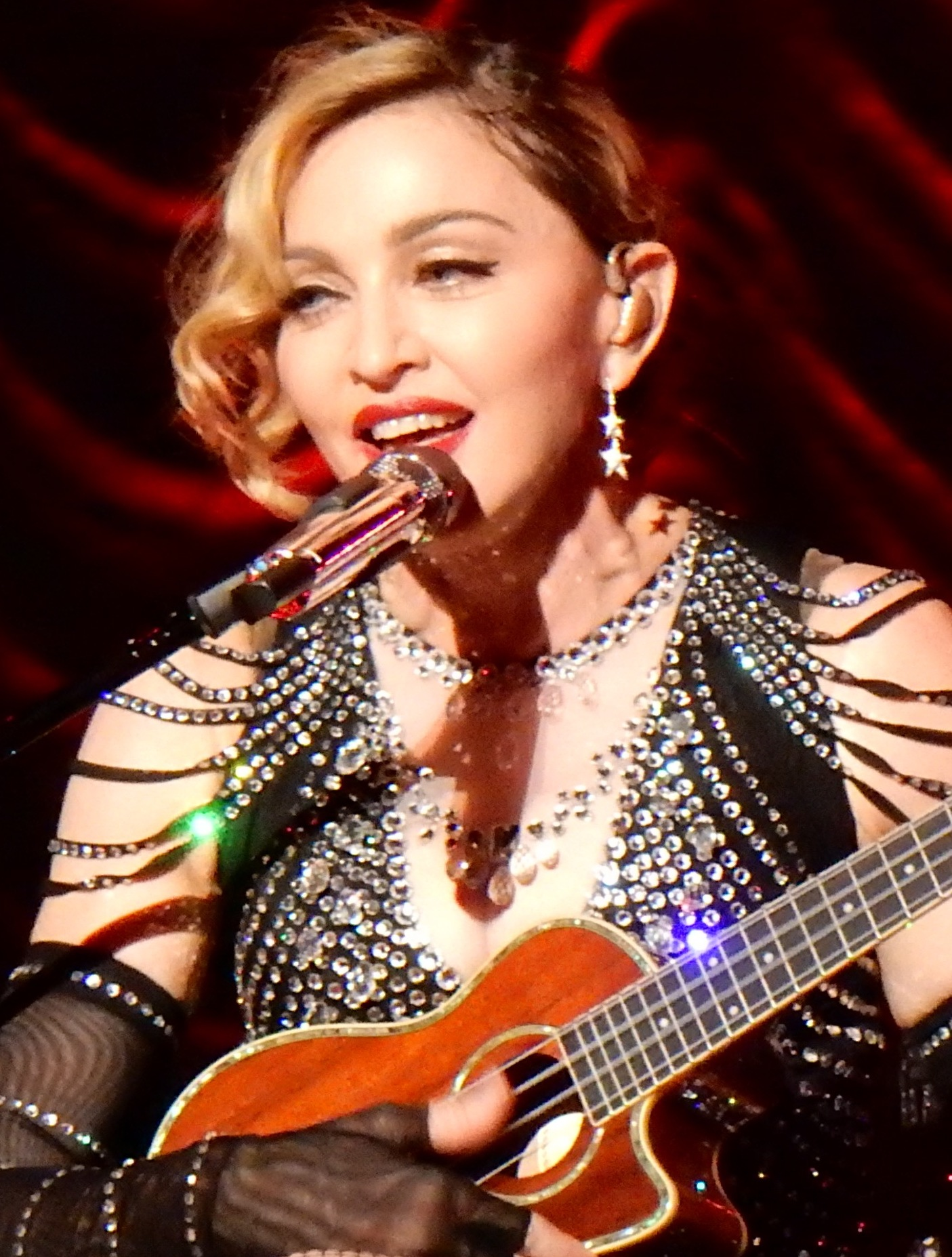 Madonna - Rebel Heart Tour Cologne 2 Madonna - Rebel Heart Tour Cologne 2